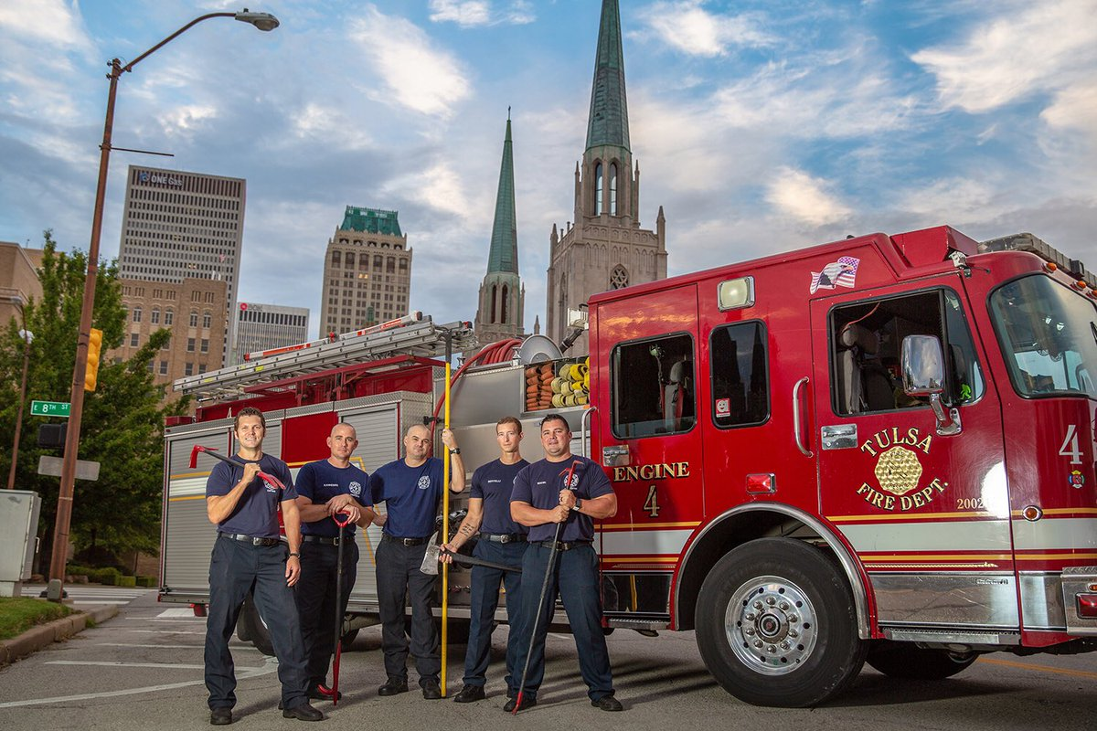 The courageous men have saved several lives.